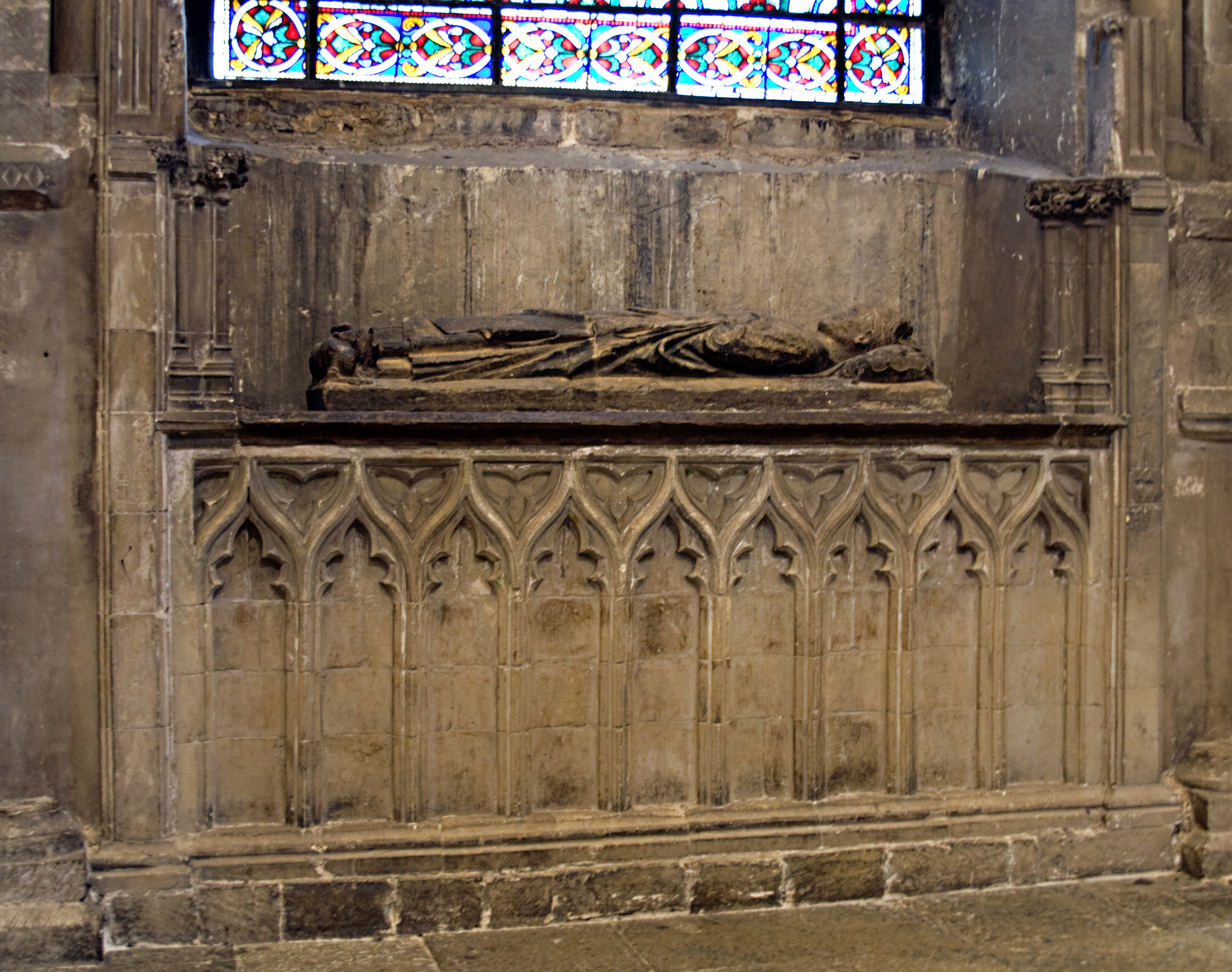 Tomb of Walter Reynolds, Archbishop of Canterbury, in Canterbury Cathedral